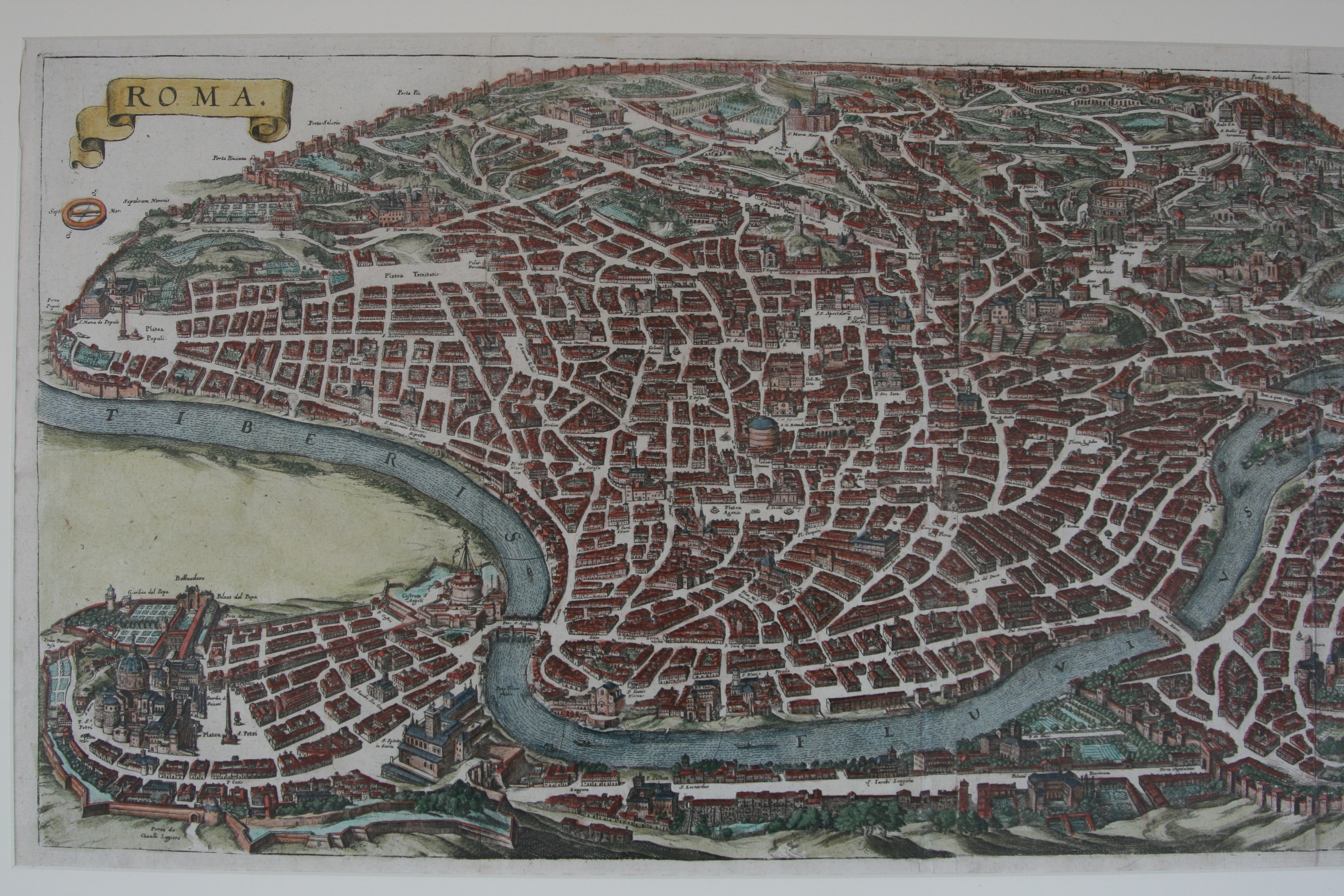 View of Rome, ca. 1640 (Matthaeus Merian, Topographia Italiae, das ist: warhaffte und curioese Beschreibung von ganz Italien...)